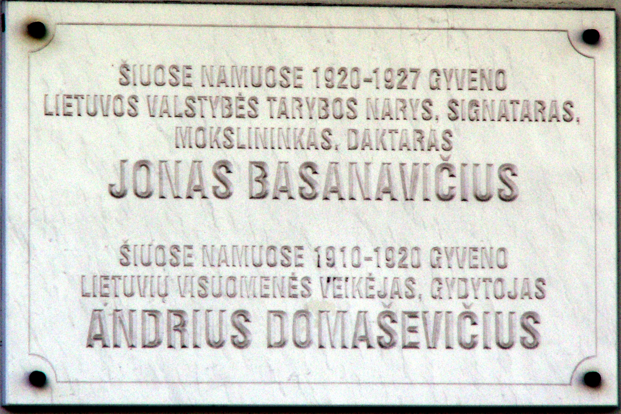 Vilnius, hous of A.Domaševišius and J.Basanavičius